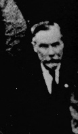 Picture of Domhnall Ua Buachalla taken in 1926 at foundation of Fianna Fáil party in Ireland